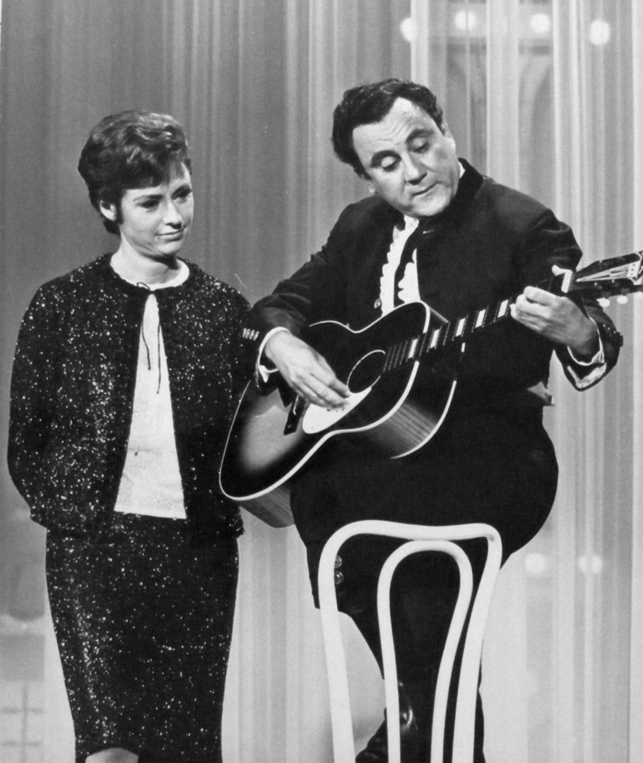 Photo of Caterina Valente and comedian Bill Dana from the television program The Hollywood Palace.